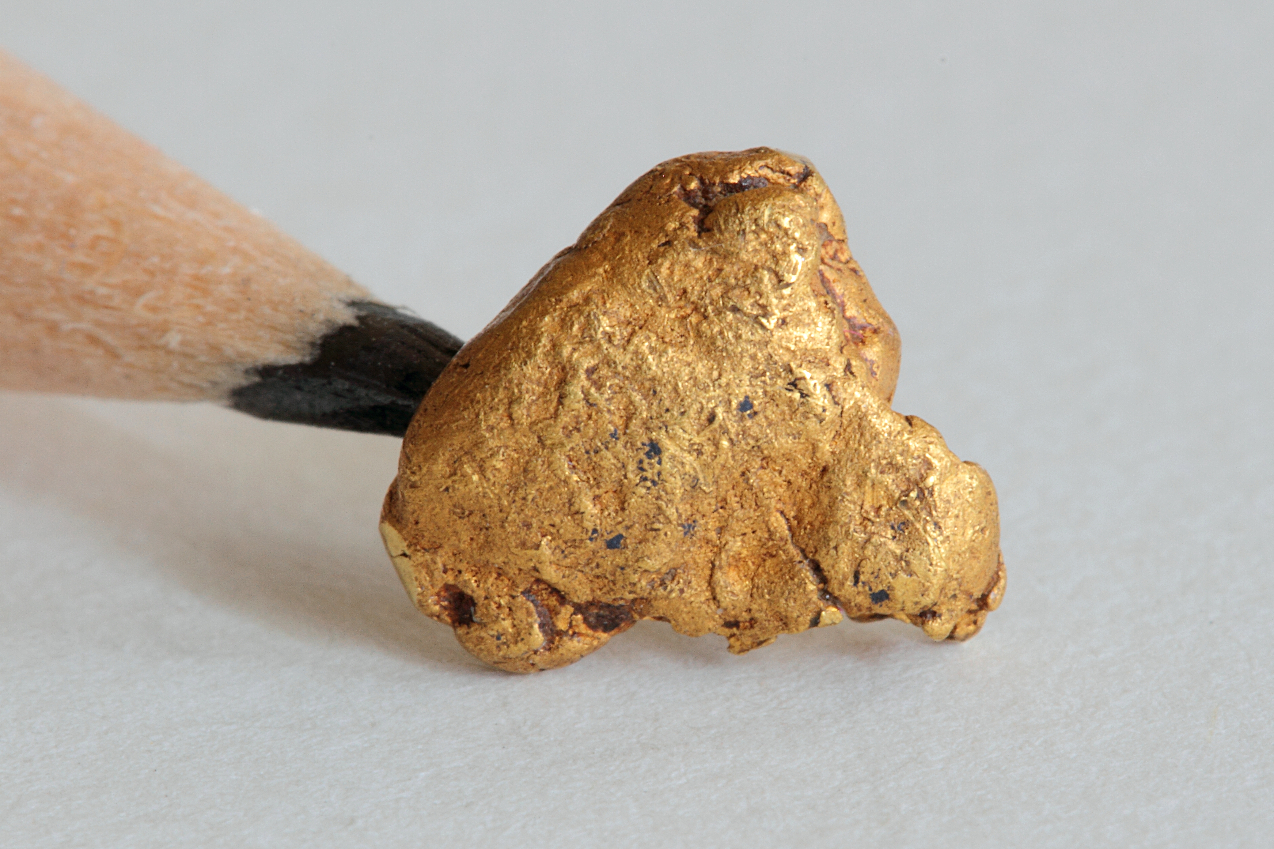 Gold nugget